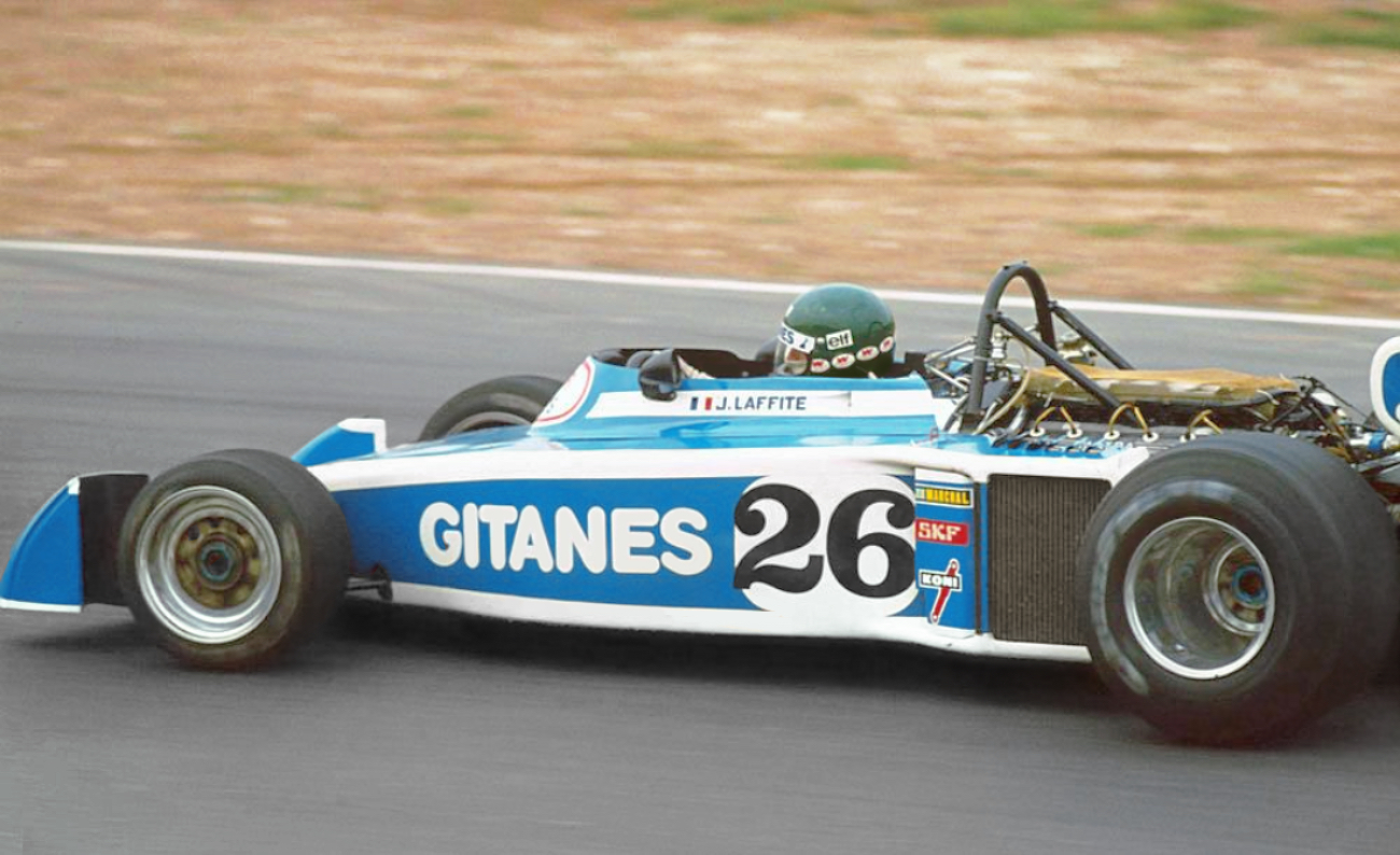 Jacques Laffite in a Ligier JS5, probably in 1976